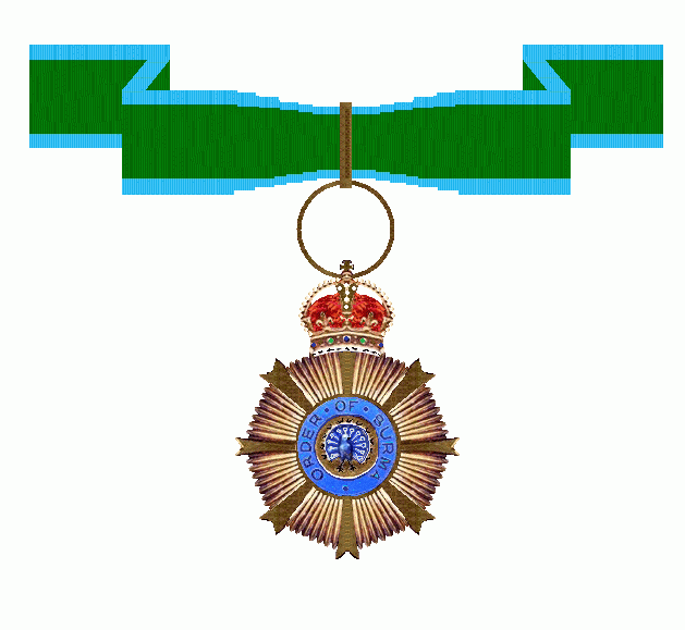 Badge of the Order of Birma